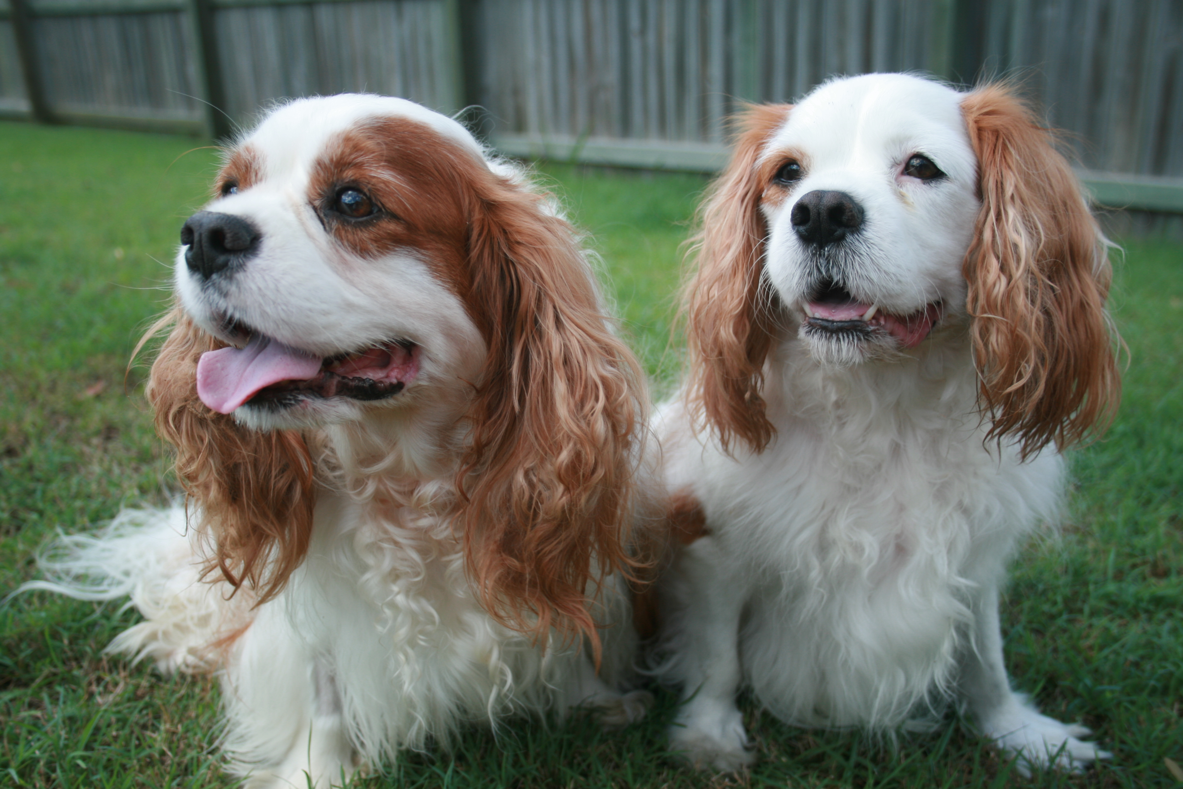 Two brother Cavalier King Charles Spaniels